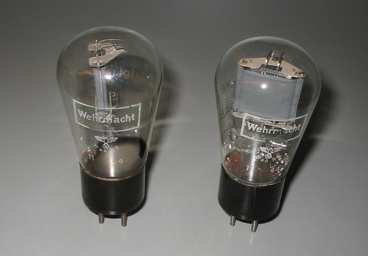 Telefunken RS242 direct heated vacuum triode Cathode heater voltage: 3,8 V Cathode heater current: 0,72 A Emission current at 110 V: 0,3 A Amplification factor: 17 Transconductance: 3,0 mA/V Capacitances: Grid–Cathode 3,5 pF Anode–Cathode 3,0 pF Anode–Grid 7,0 pF Maximum anode voltage: 400 V Maximum anode dissipation: 12 W Typical anode current: 70 mA Weight: 60 g